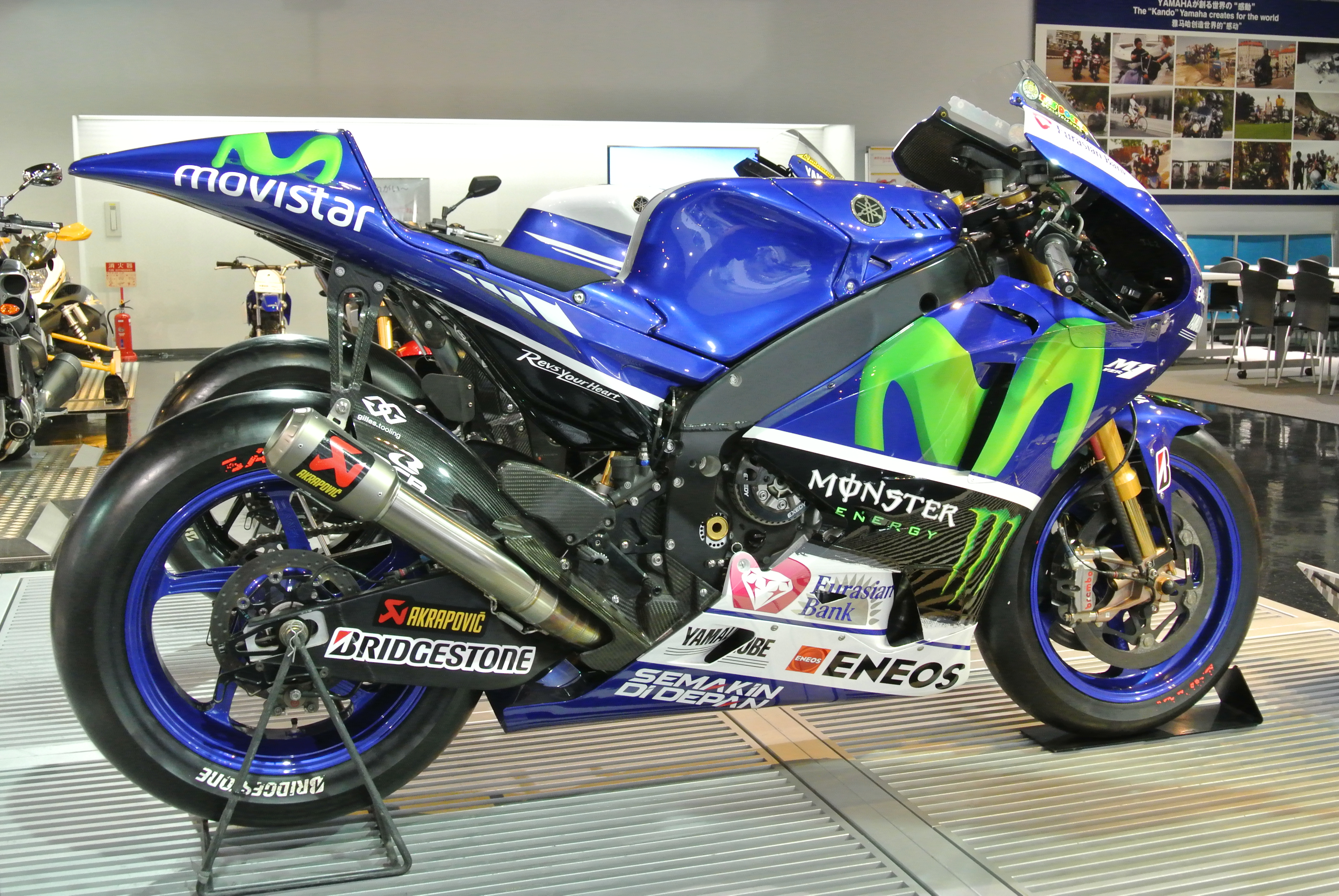 2015 Yamaha Factory Racing YZR-M1 in the Yamaha Communication Plaza. #46 Valentino Rossi